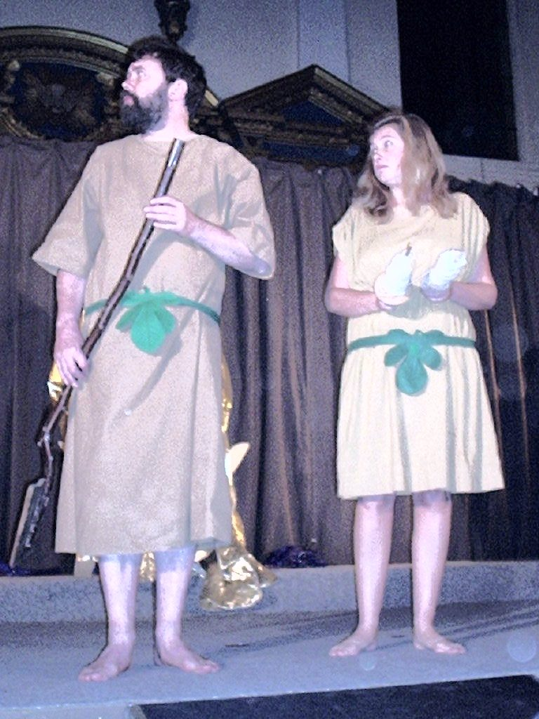 Eva: Ye must delve and I shall spin - our bodily sustenance for to win. Adam and Eve are expelled from Paradise. Performed by the Players of St Peter in the Church of St Clement Eastcheap, London, England in 2004 November. More photos from this and other productions.